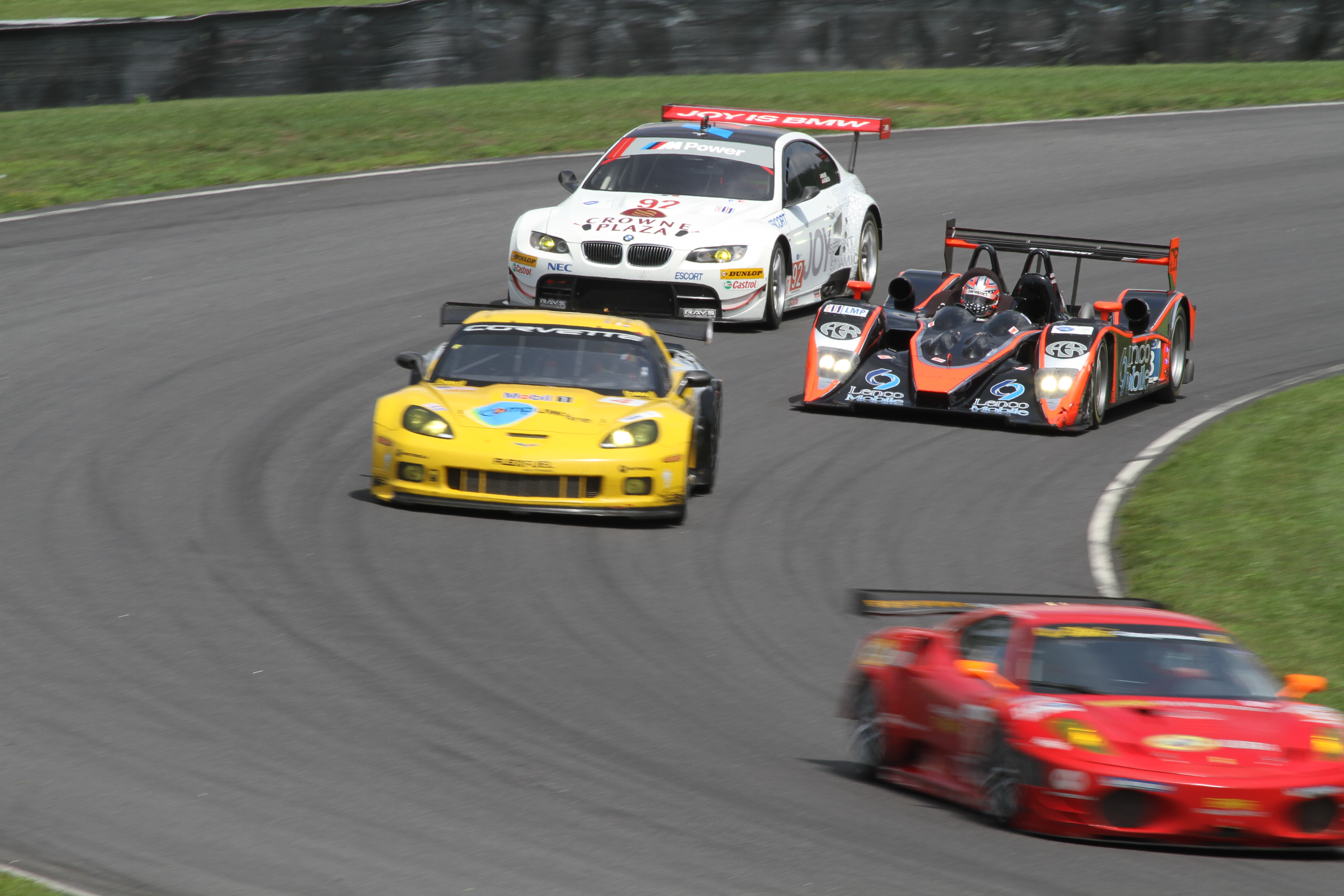 2010 American Le Mans Series Northeast Grand Prix.